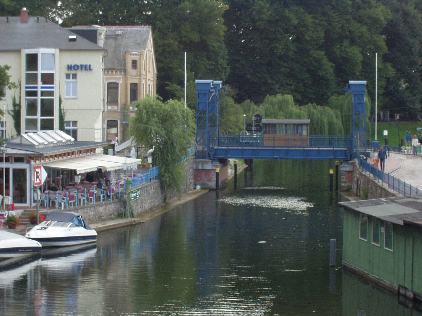 Bridge in citycentre of Plau am See, Germany